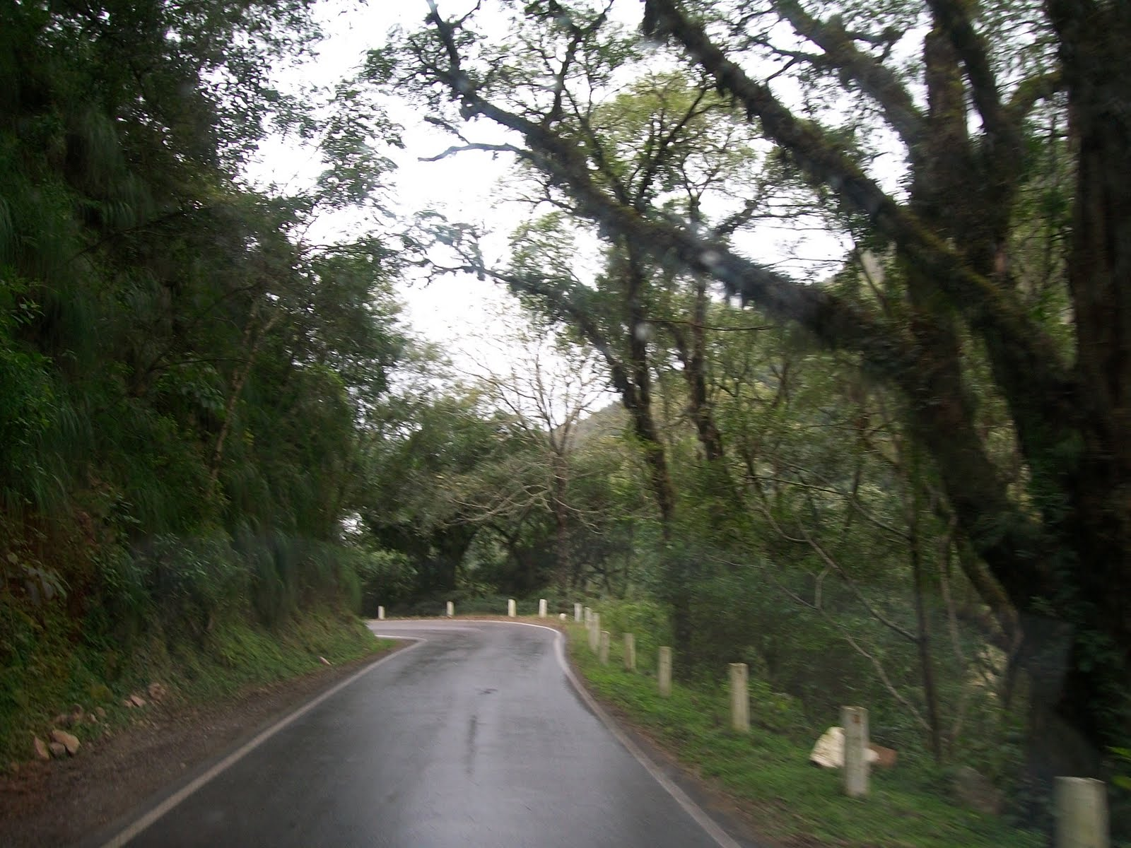 Camino de Cornisa, Ruta Nacional 9 entre Salta y Jujuy